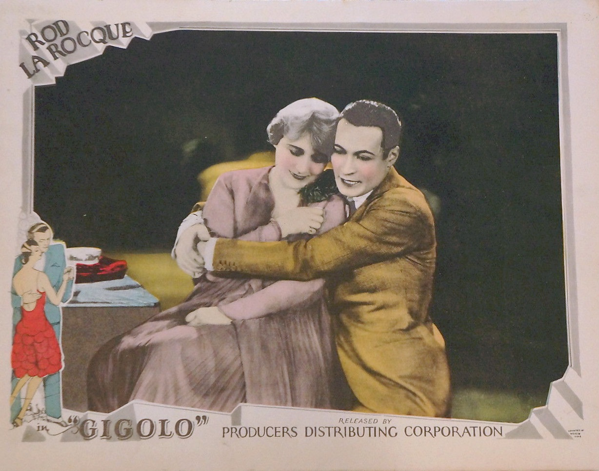 Lobby card for the American film Gigolo (1926). There are no copyright marks as can be seen at the links. At bottom right contained in the artwork is Country of origin USA.